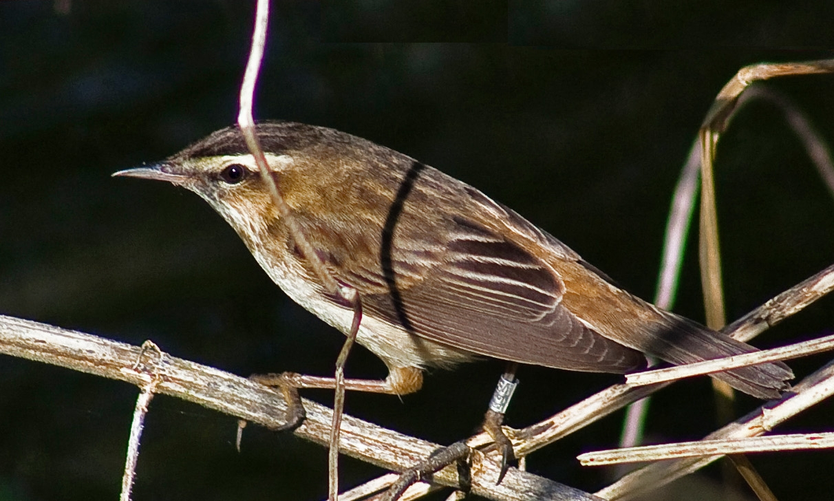 Sedge Warbler, Acrocephalus schoenobaenus, by River Test, near Stockbridge in Hampshire